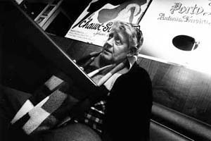 Hugo Pratt